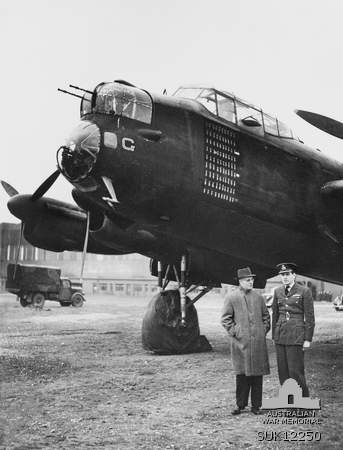 AWM caption : Lincolnshire, England. C. 1944-05. The Right Honourable John Curtin, Prime Minister of Australia (left), visited No. 460 (Lancaster) Squadron RAAF and was escorted by Group Captain Hughie I. Edwards VC, an Australian serving with the RAF, who commands the RAF Station Binbrook. They are in front of one of the Squadron aircraft, "G" for George.